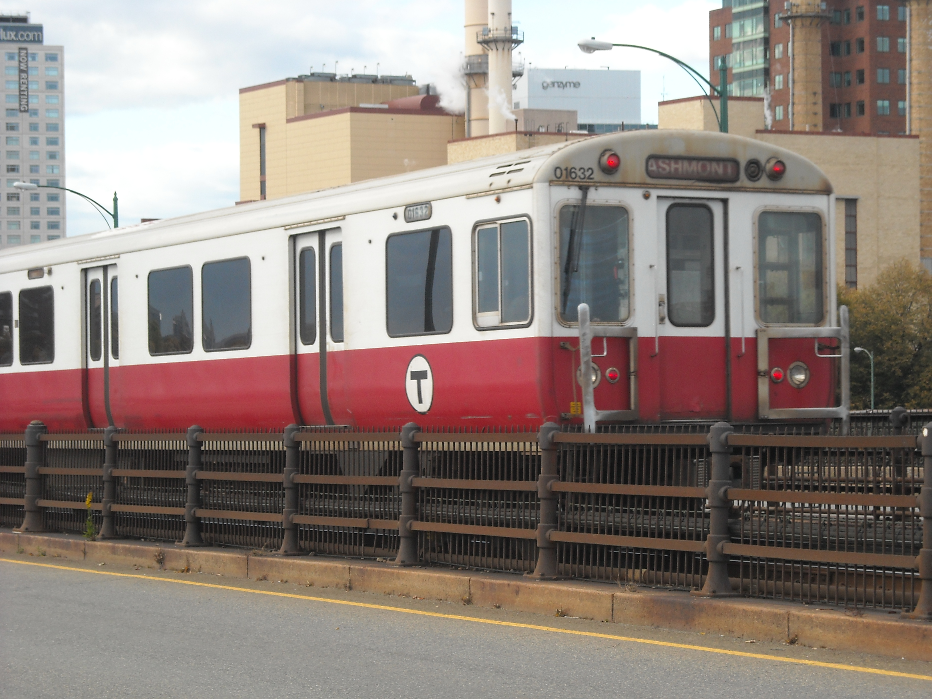 An Ashmont-bound Red Line train crosses the Longfellow Bridge